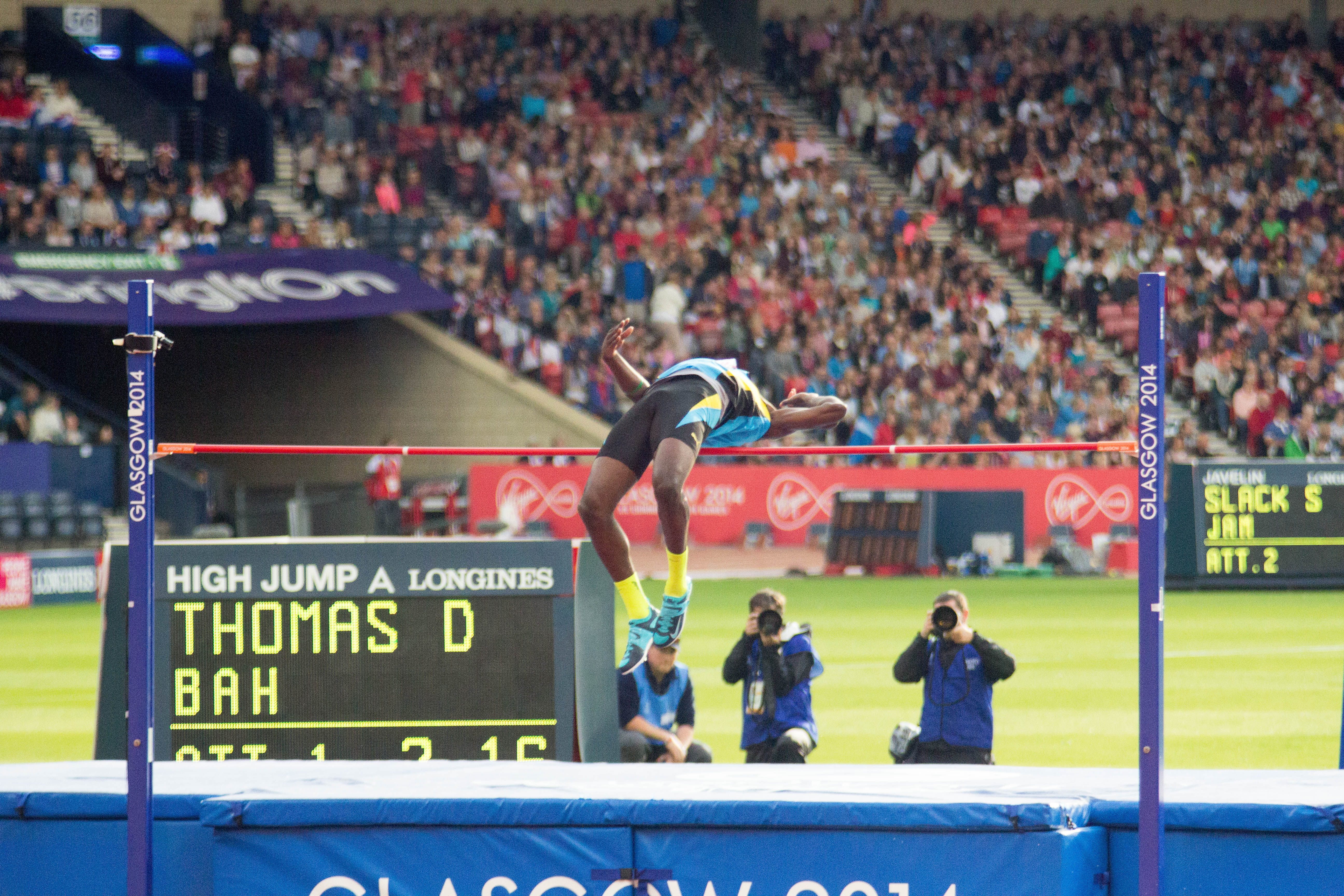 Commonwealth Games 2014 - Athletics Day 4 2014 Commonwealth Games Day 4: Athletics